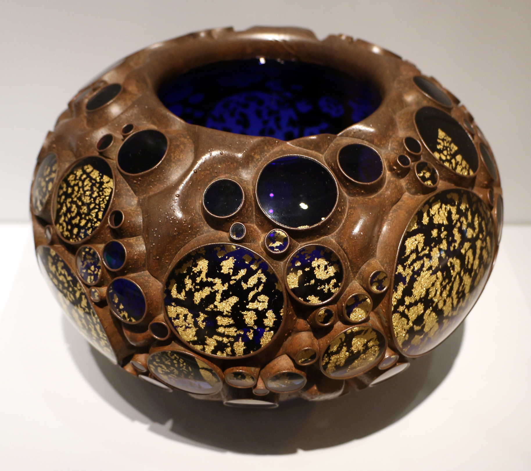 Glassware in the Indianapolis Museum of Art